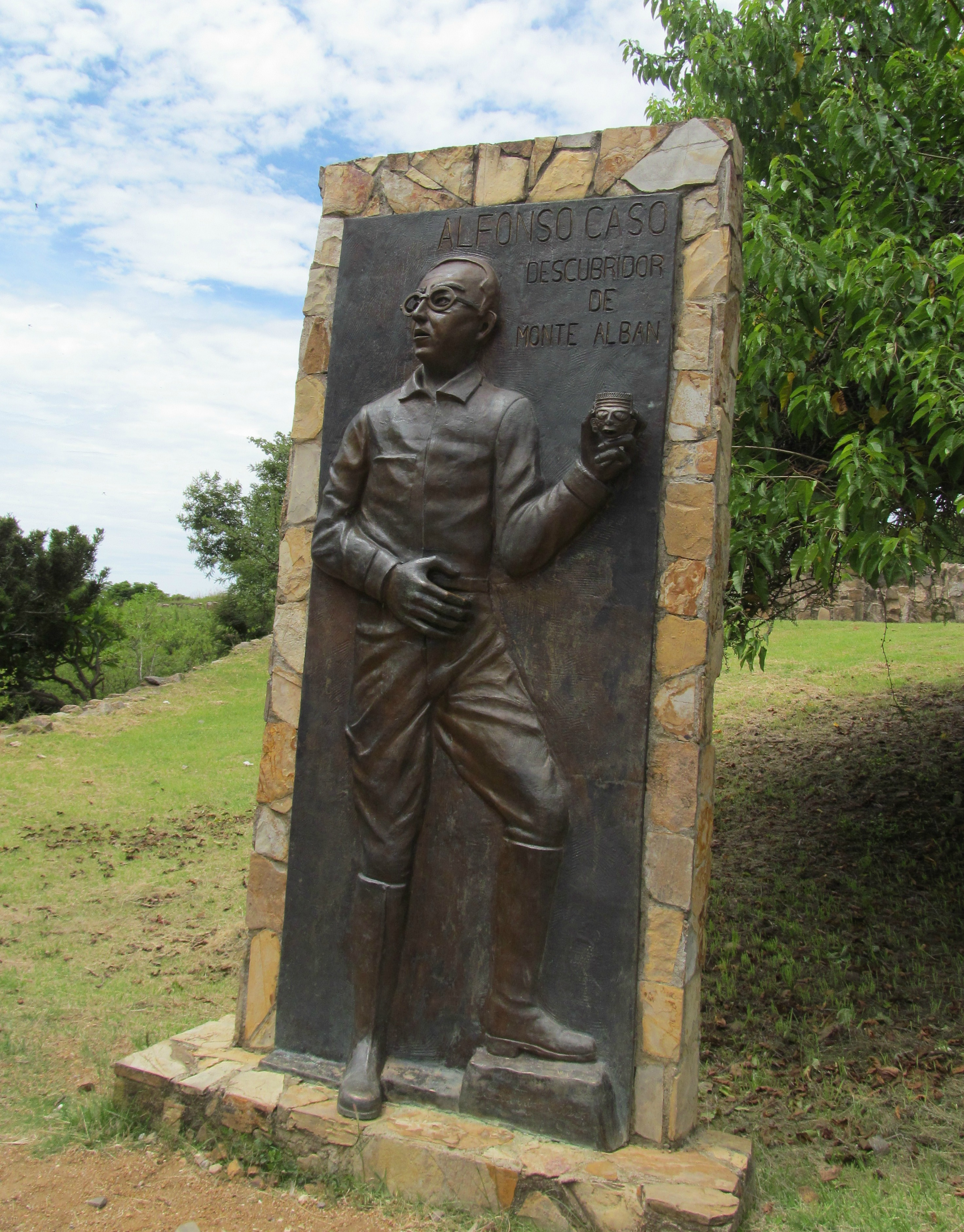 Alfonso Caso, discoverer of Monte Alban. Located at the main entrance of the archaeological area.